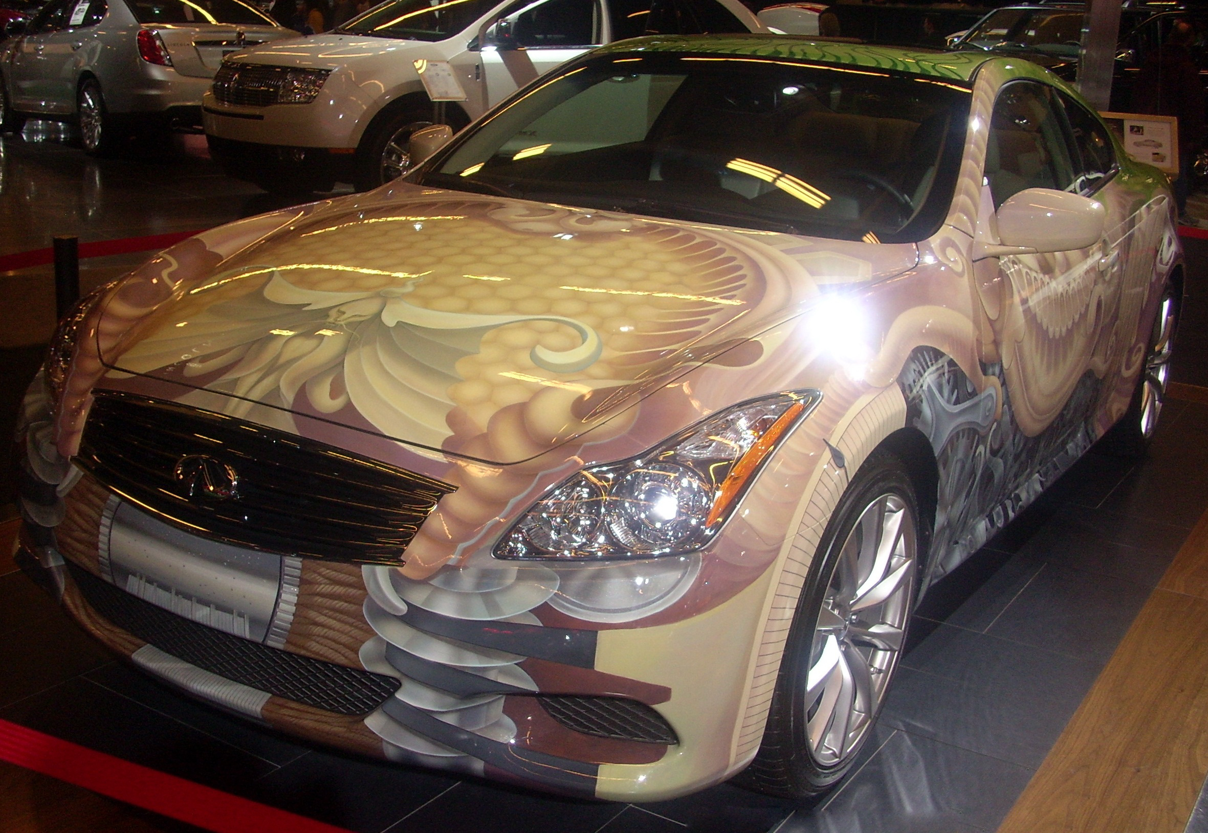 2010 Infiniti G37 photographed in Montreal, Quebec, Canada at the 2010 Montreal International Auto Show.